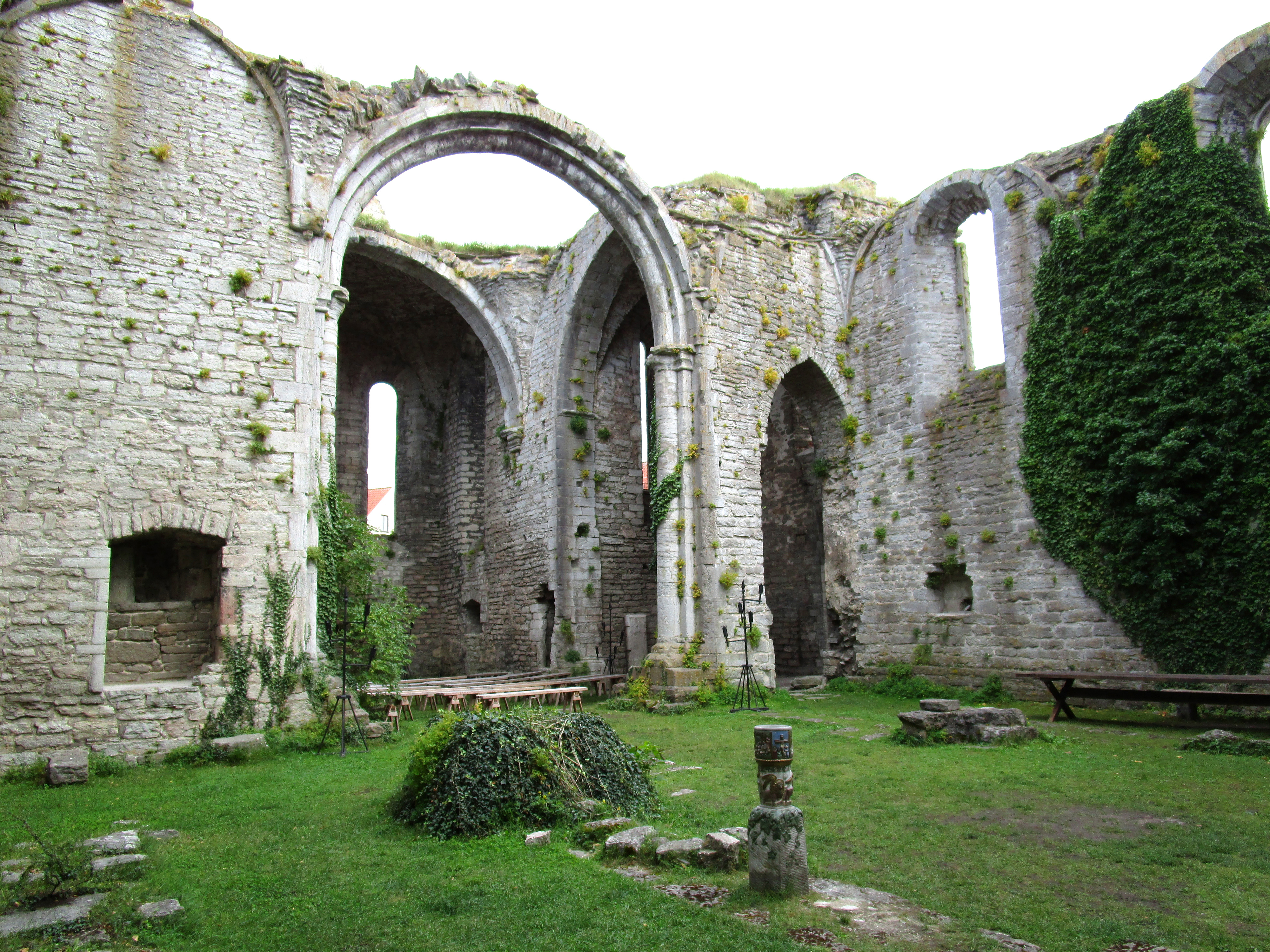 Saint Clemens Church ruin in Visby, Gotland, Sweden.